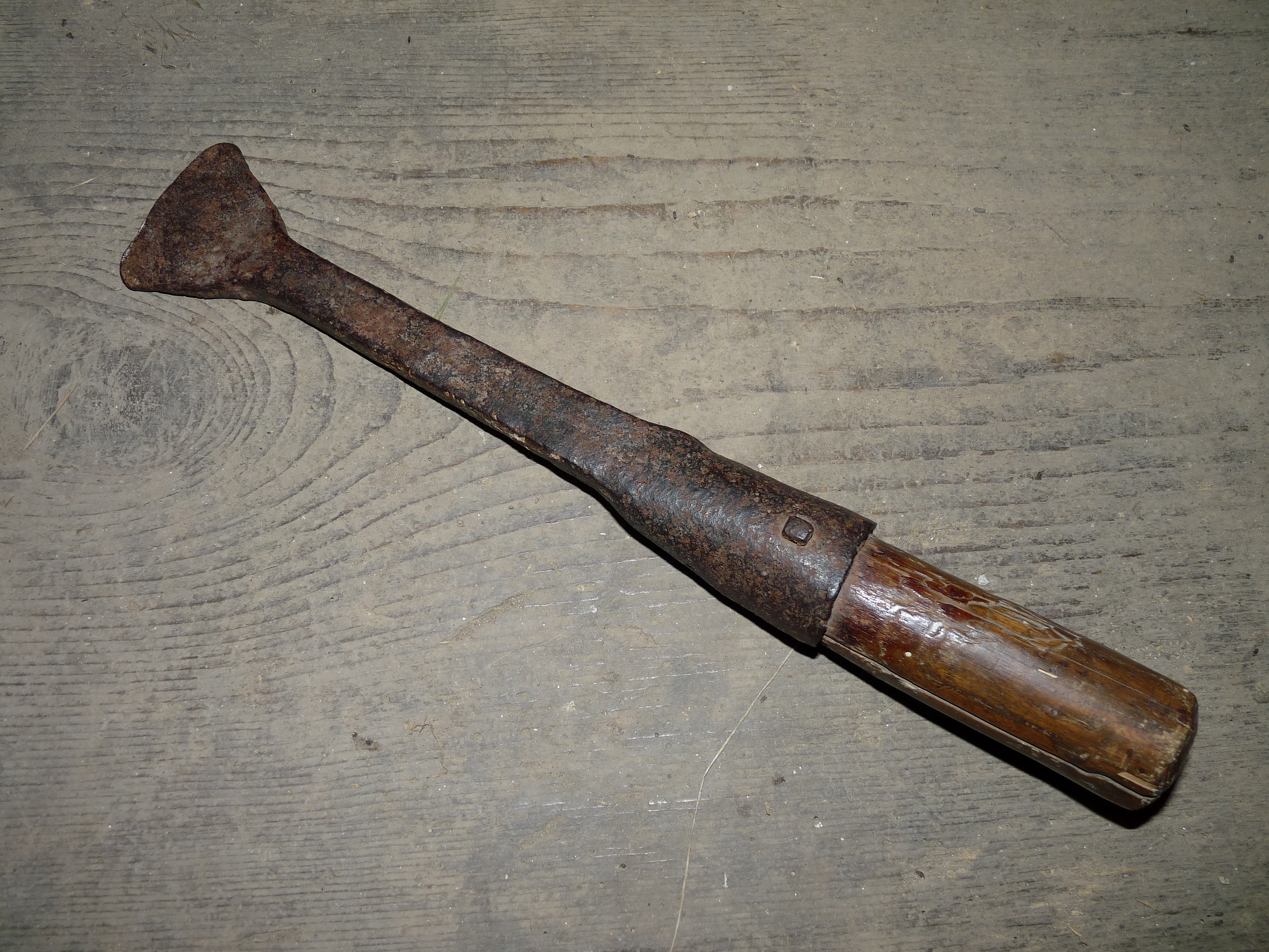 Ploughshare at the Rosenauerův mlýn (Rosenauer mill) in Velké Hydčice near Horažďovice, Klatovy District, Czech Republic.